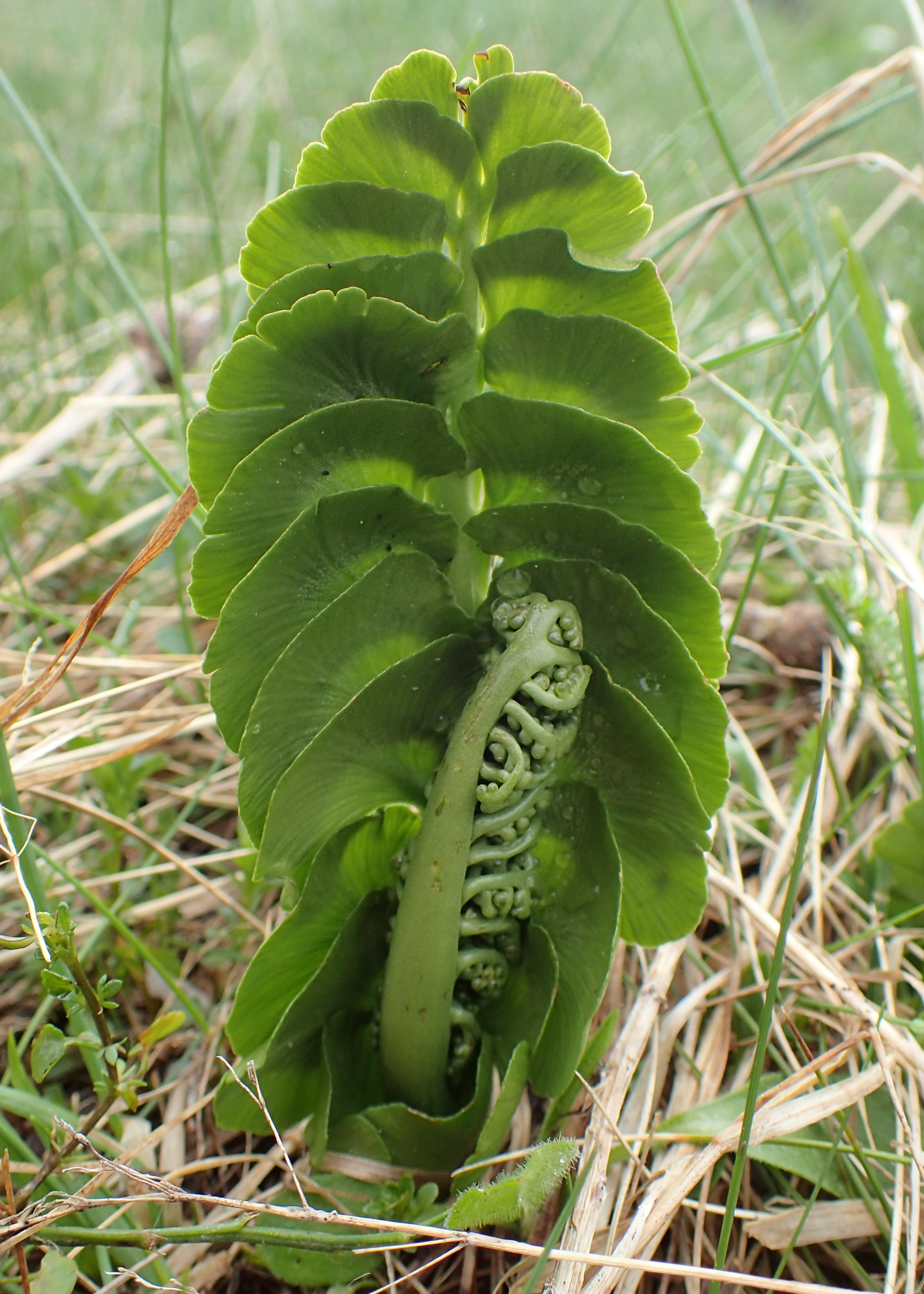 Botrychium lunaria near Aleko Hut on Witosha, Sofia, Bulgaria